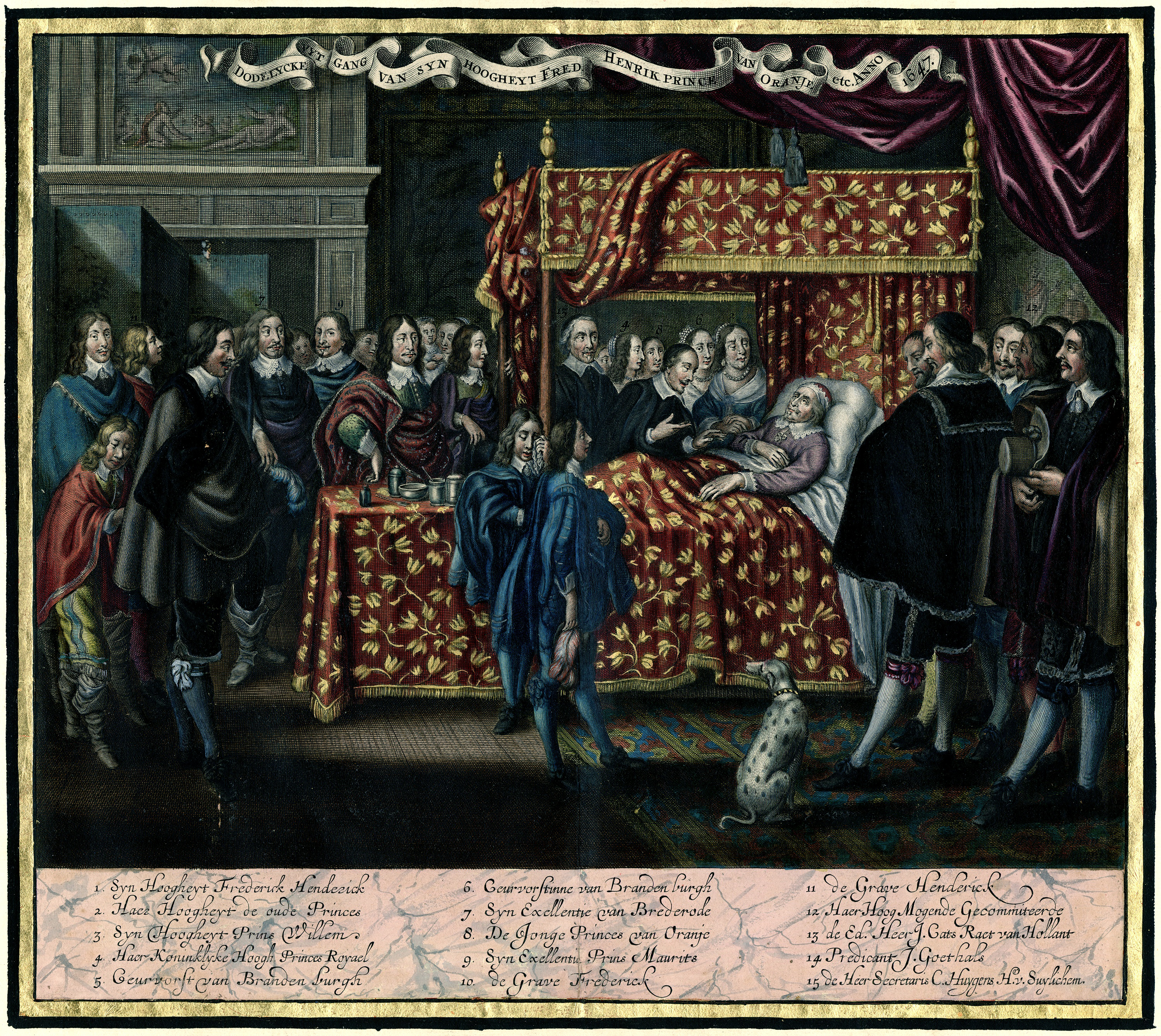 Prince Frederick Henry on his deathbed surrounded by friends and family, in 1647.